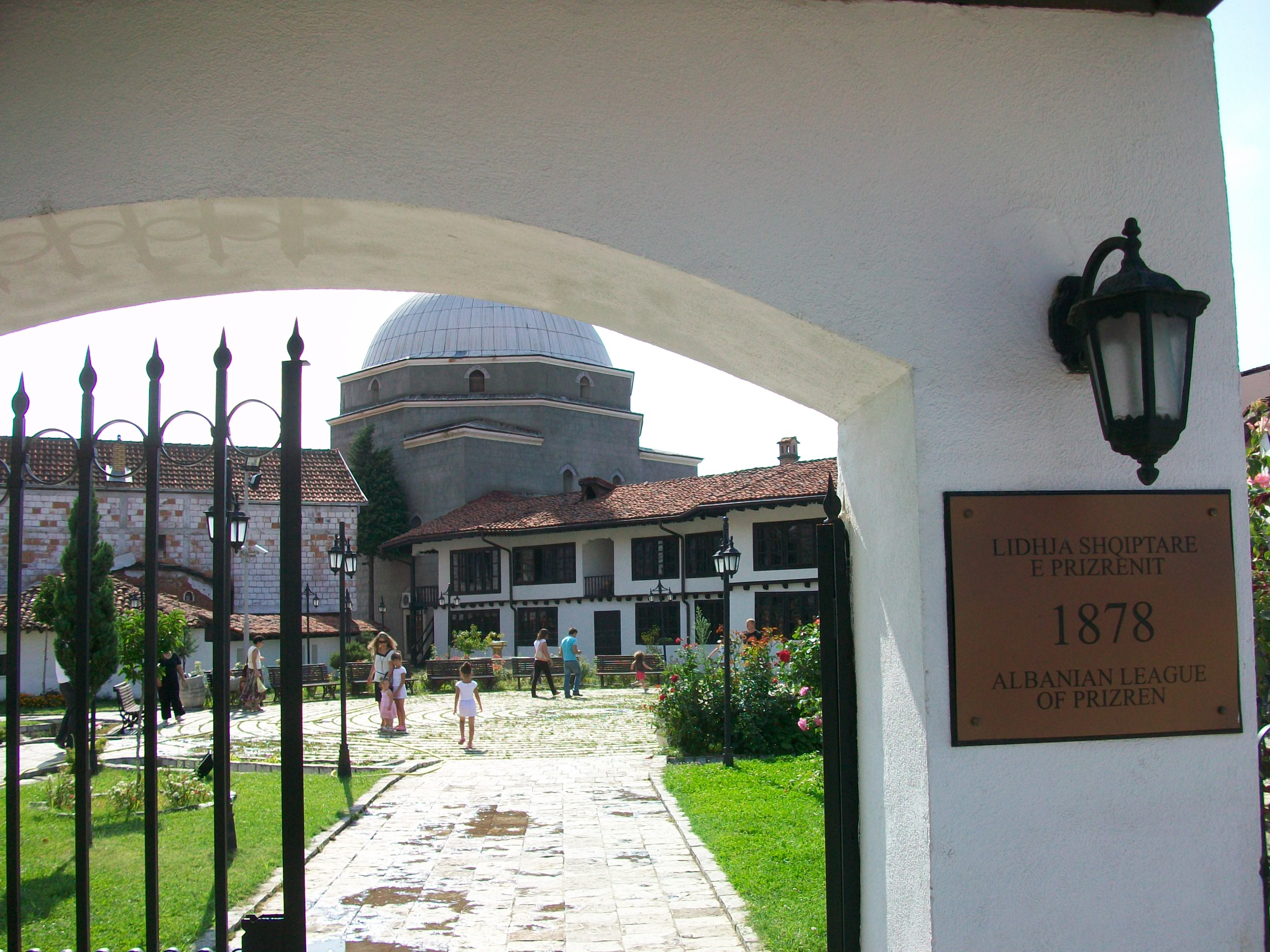 Pictures from Prizren Kosovo